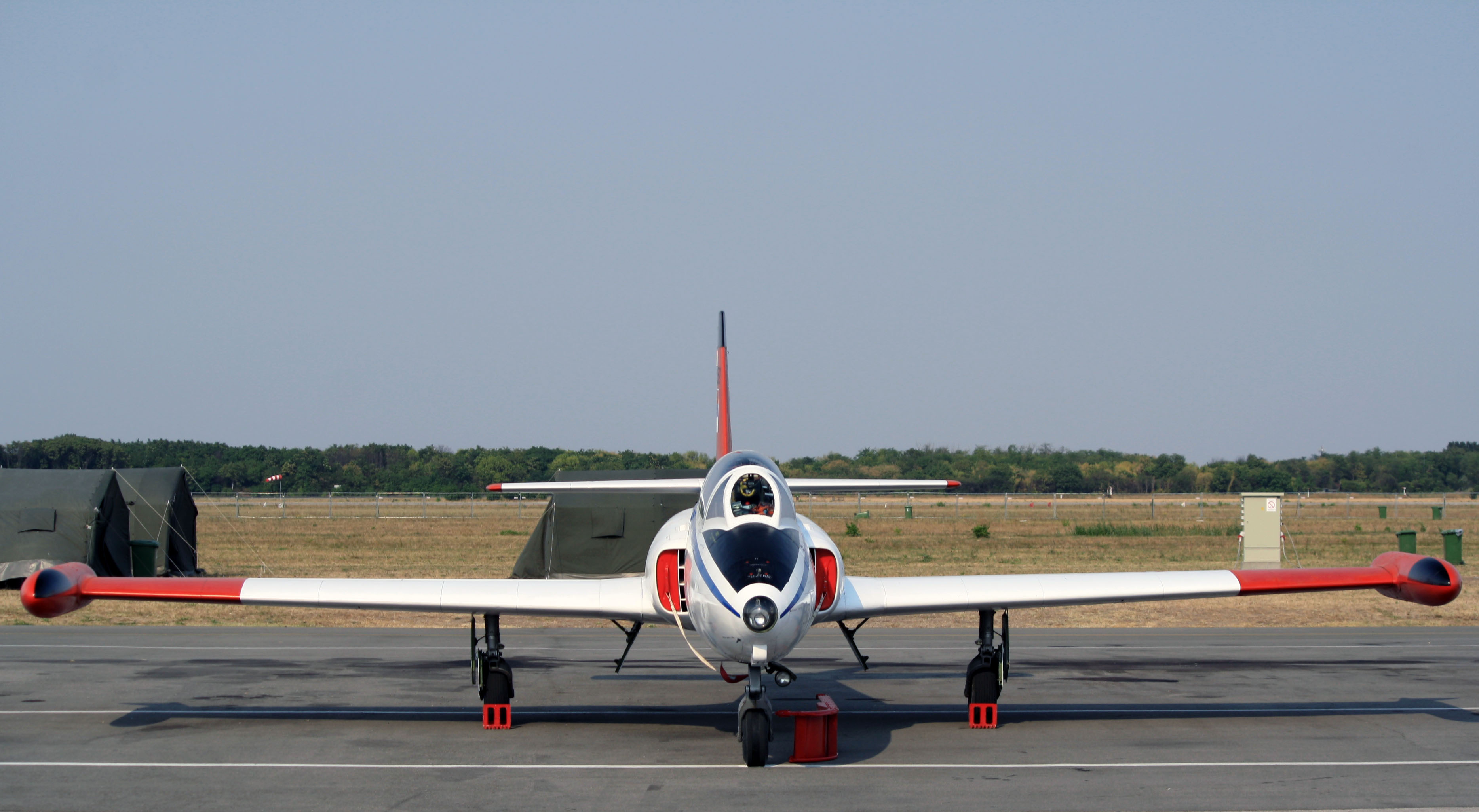 G-2 Galeb trainer/light attack jet aircraft No.23252 of Flight-Test Center (CLI, ex-Flight-Test Center - VOC) of Technical Test Center (TOC) on display at Batajnica Air Show 2012 held to celebrate 100 years of Serbian Air Force.